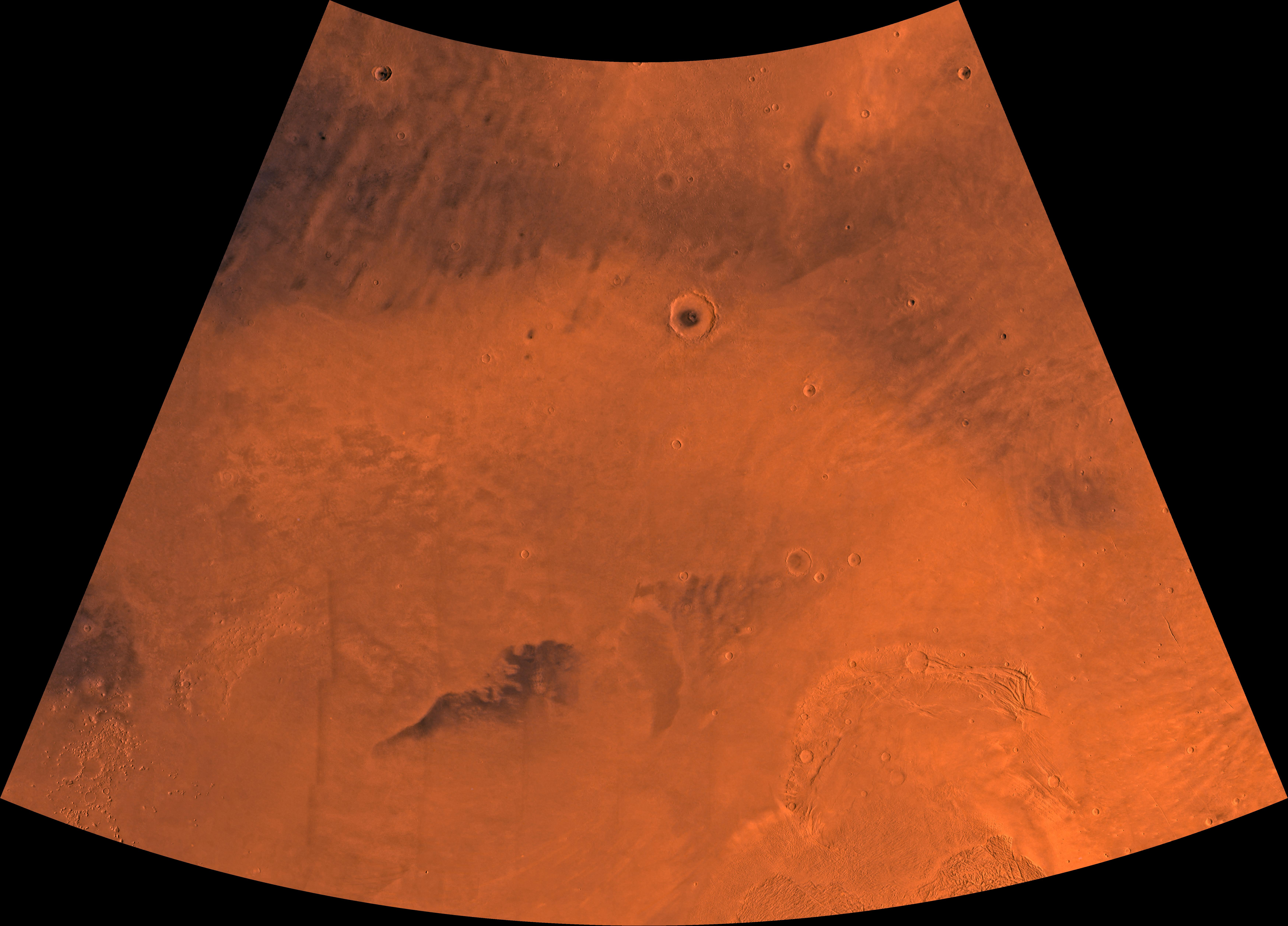 PIA00162: MC-2 Diacria Region Mars digital-image mosaic merged with color of the MC-2 quadrangle, Diacria region of Mars. The northern two-thirds is dominated by relatively smooth plains. The southeastern part is marked by aureole deposits of the largest known volcano in the solar system, Olympus Mons. Latitude range 30 to 65 degrees, longitude range 120 to 180.